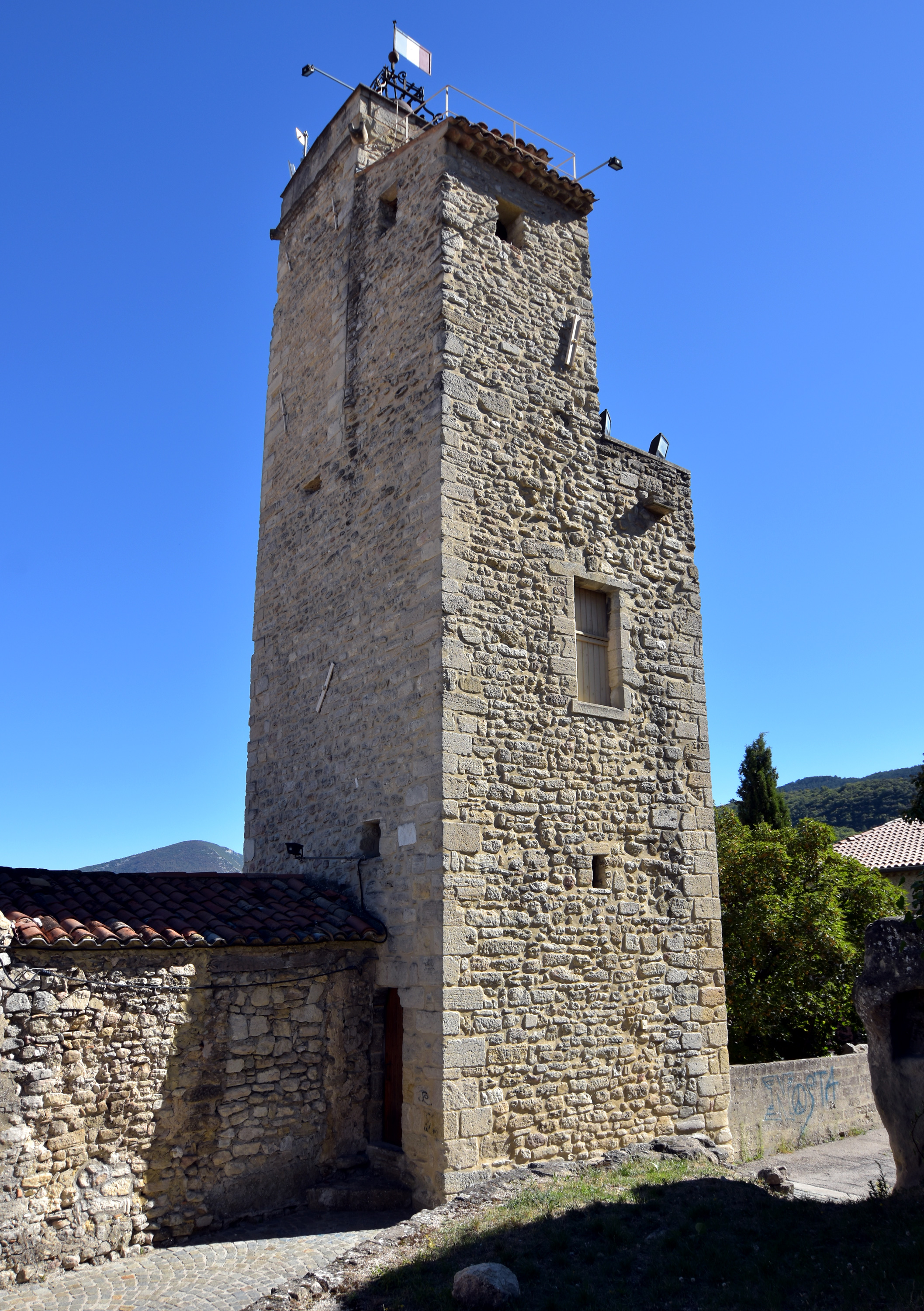 Malaucène, Belfry